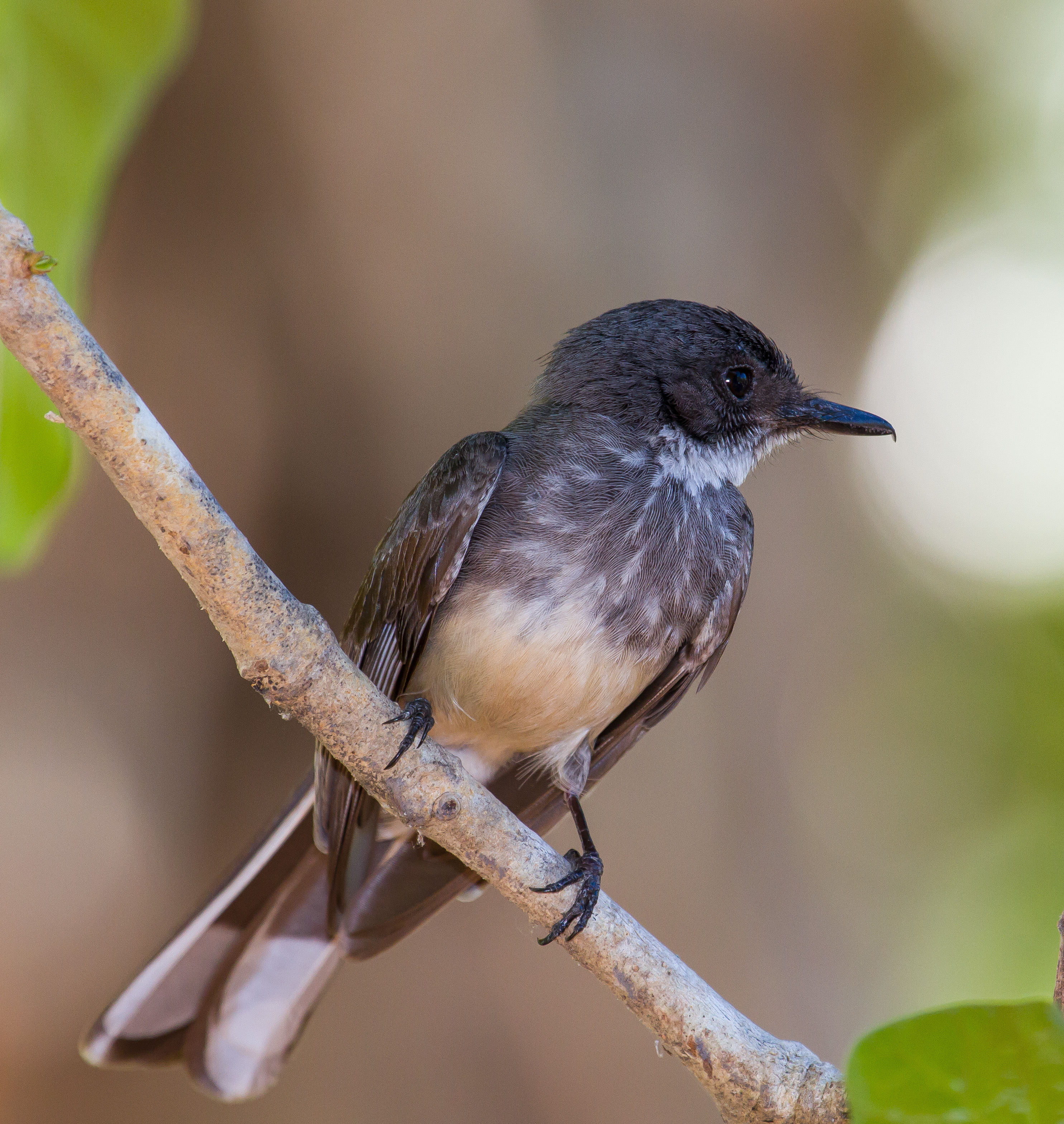 Fogg Dam, Middle Point, Northern Territory, Australia